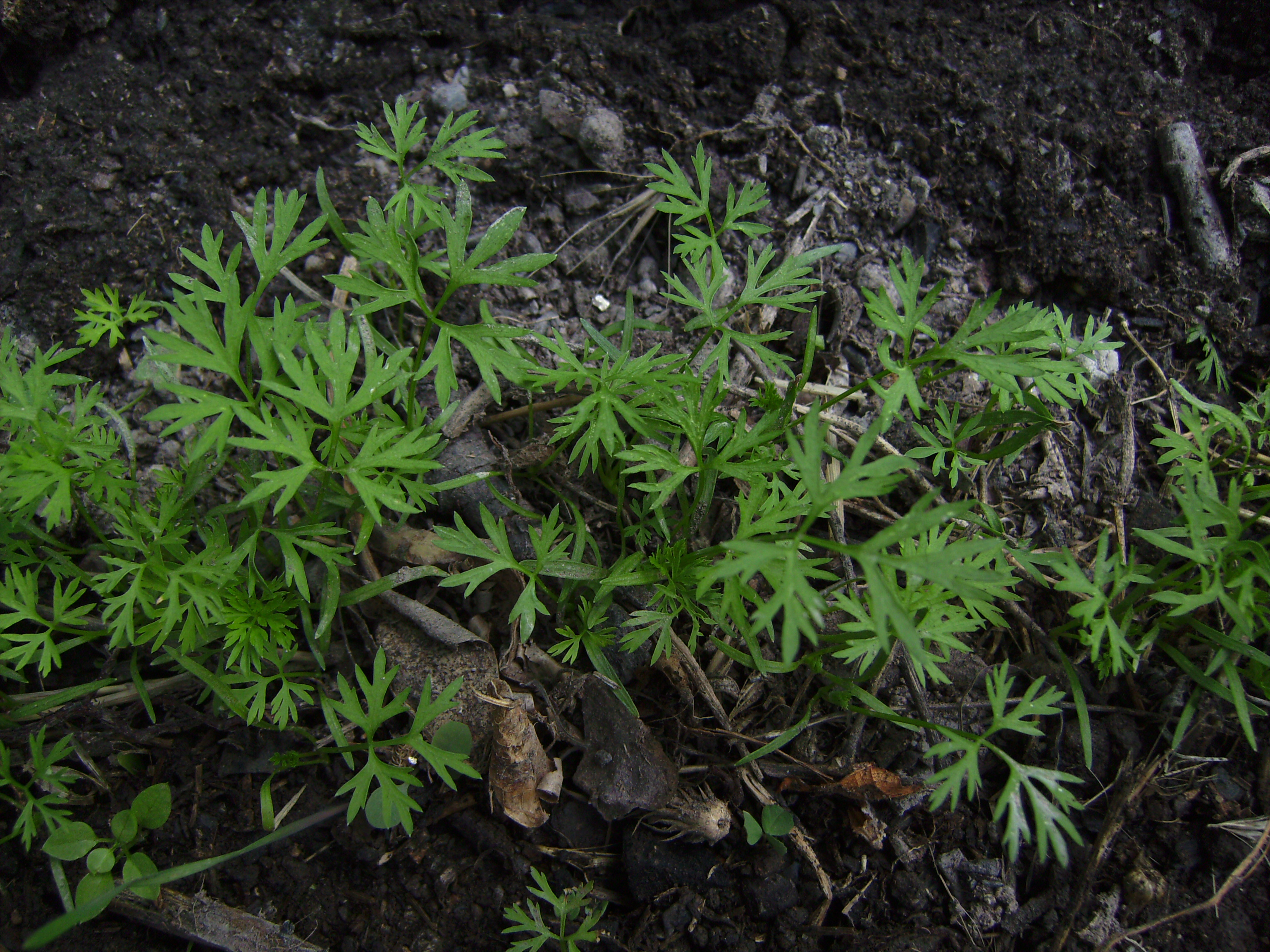 Carots, cultivated, young plants, cultivar Nantesa. Castelltallat, Catalonia